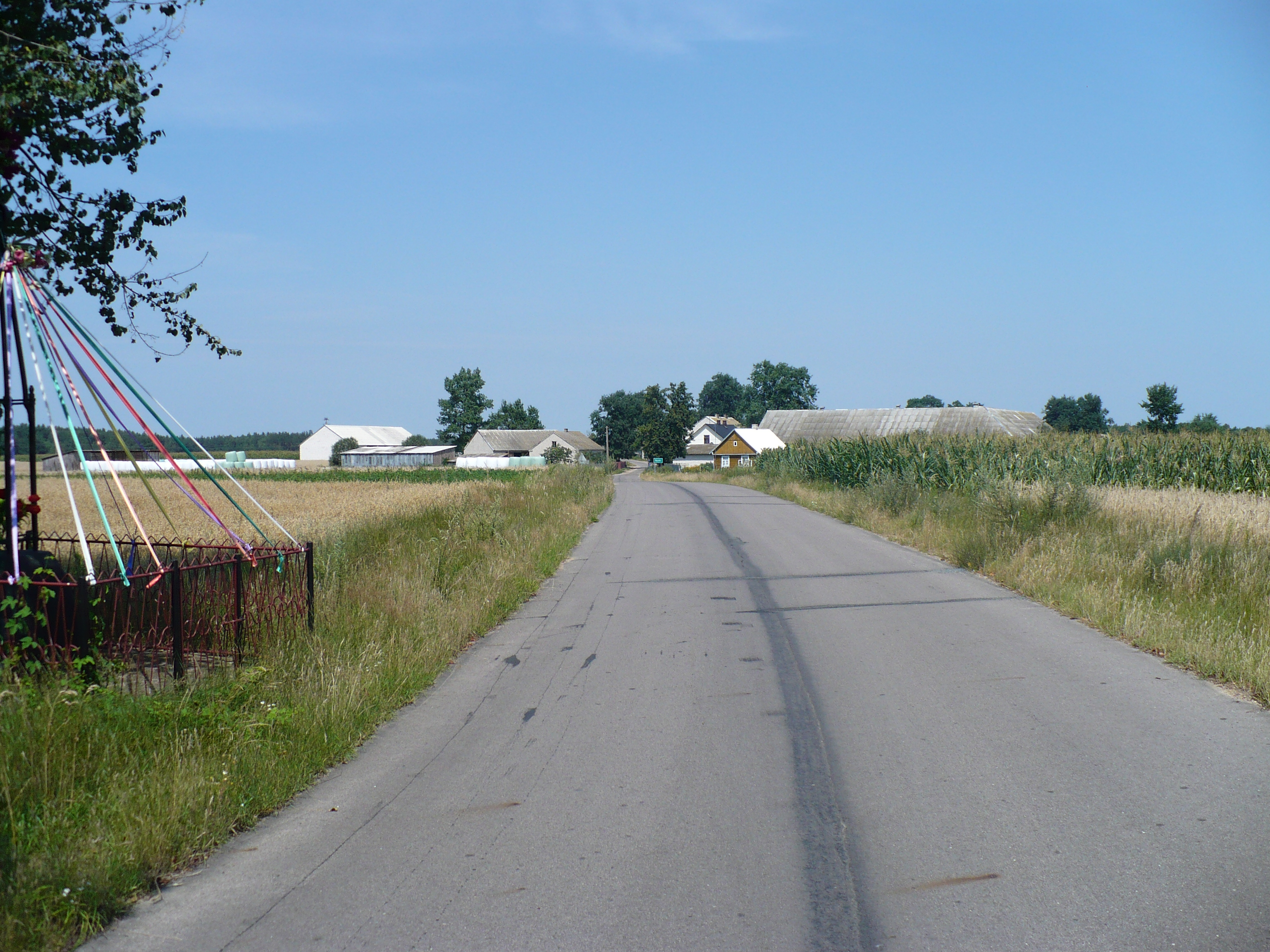 This is the view on the small village in the gmina Troszyn, on the Polish Mazovia. You can see wayside shrine after left.